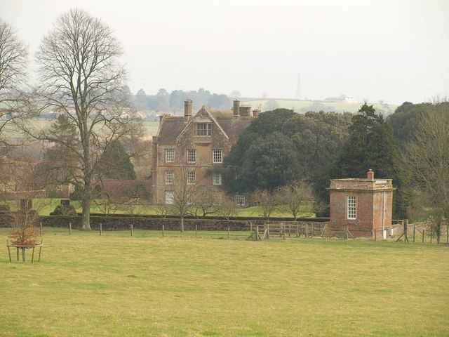 Clifton Maybank House. A closer look at 1159918, which describes its history. There is an architectural account at , which intriguingly points out that various parts of the demolished house were recycled elsewhere in Dorset and Somerset, such as at Montacute, Beaminster, Hinton St George and 1555462. To the right is the late C18 brick summer house . Viewed from footpath N10/13.